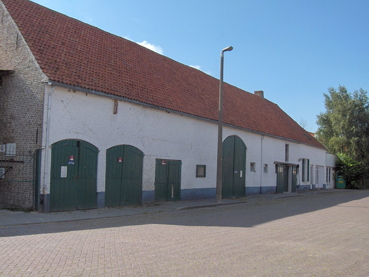 't Boldershof, an old farm (ca. 1600) in the centre of Stene, Ostend, Belgium